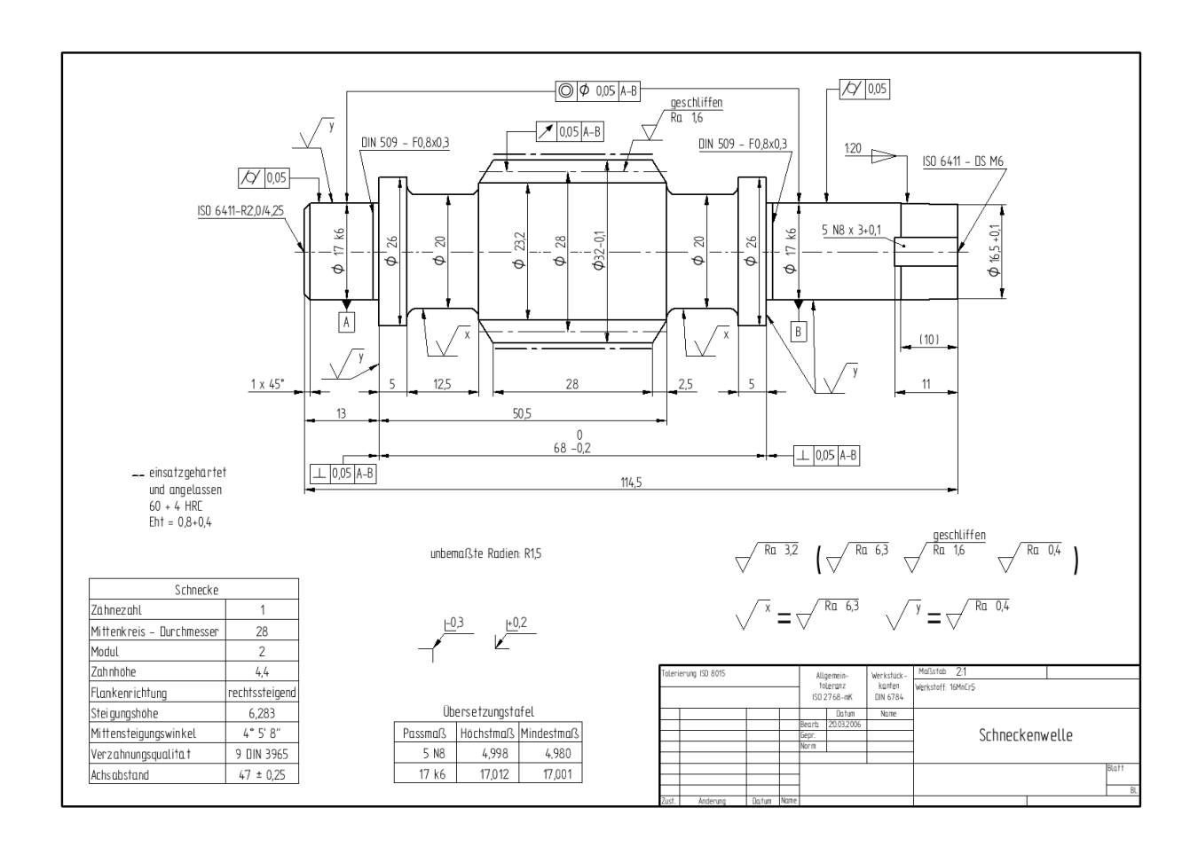 Engineering drawing of a worm shaft, created with Solid Edge